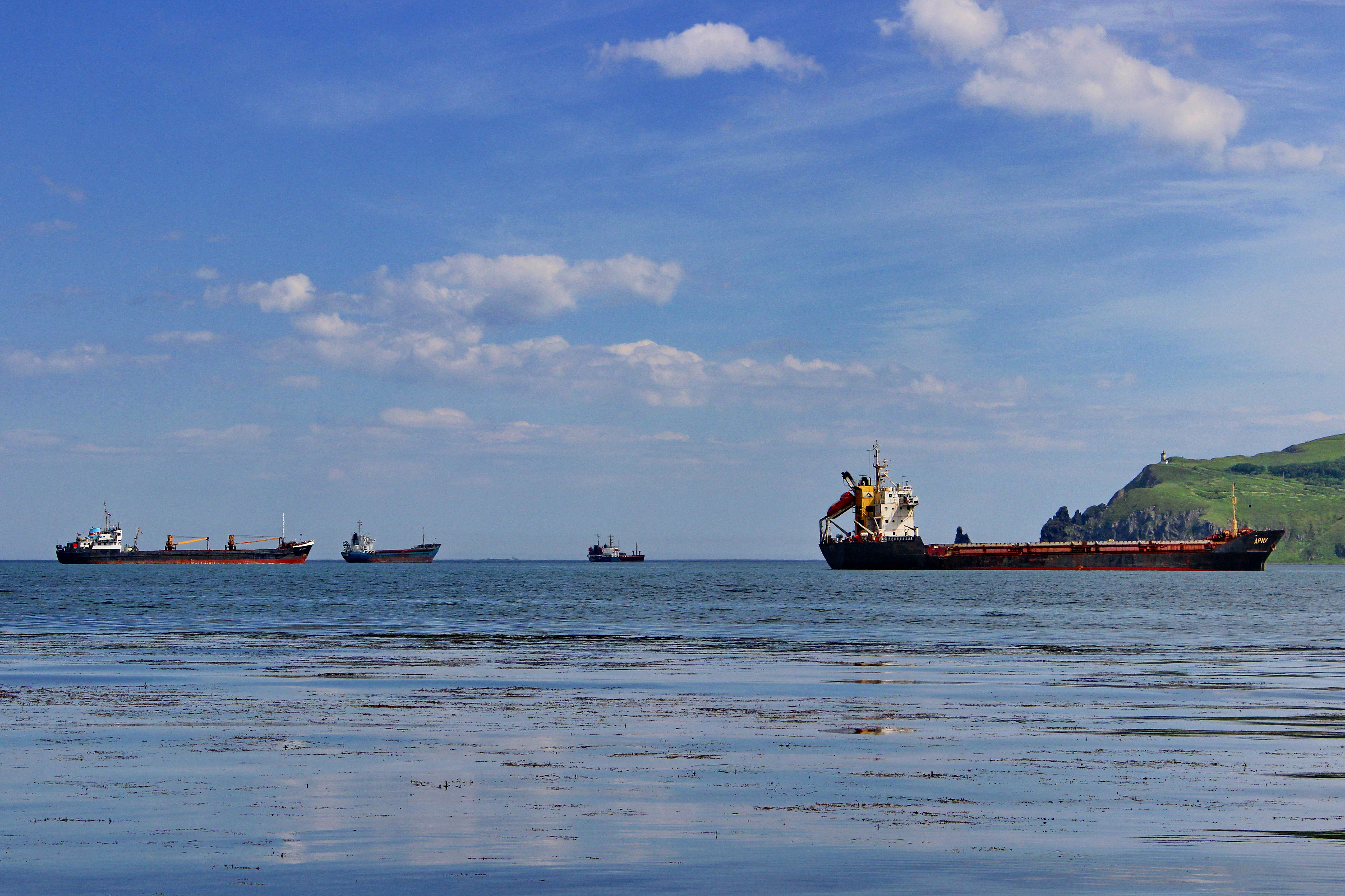 Ships anchored in the bay Plastun. 2012.